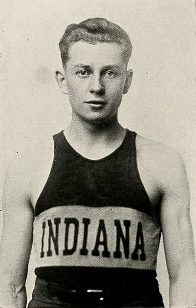 Photograph of Everett Dean